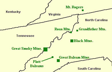 Map showing the major stands of the Southern Appalachian spruce-fir forest ecoregion — in the Southern Appalachian Mountains of the Southeastern United States. Ecoregion of the Temperate coniferous forests Biome. Spruce-fir forests grow in the highest elevations of the Southern Appalachian Mountains, where the climate is too harsh for most broad-leaved trees.